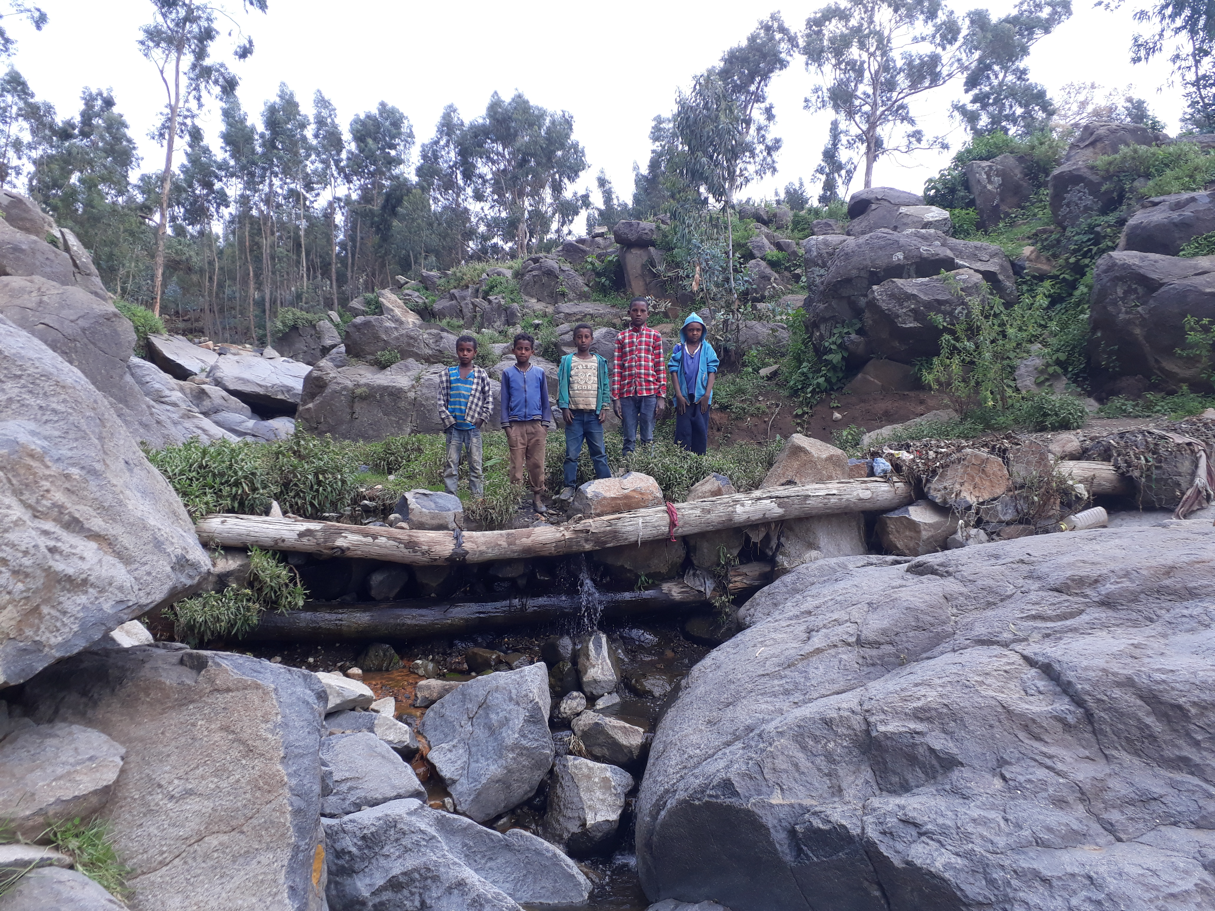 Log Dam May Qoqah